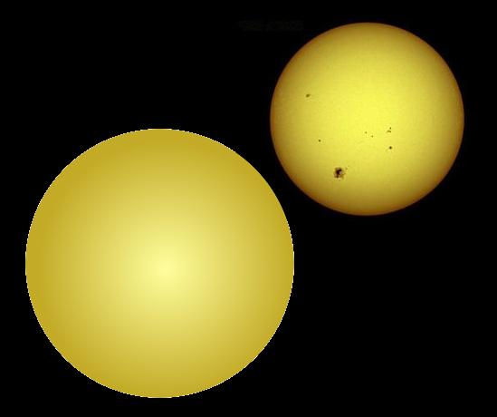 Kepler-6 (left) and sun (right) in scale.